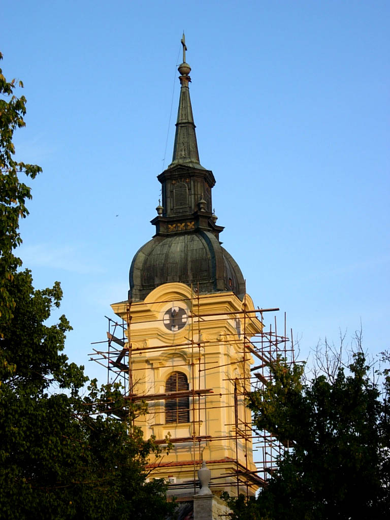 The Orthodox church in Sefkerin.